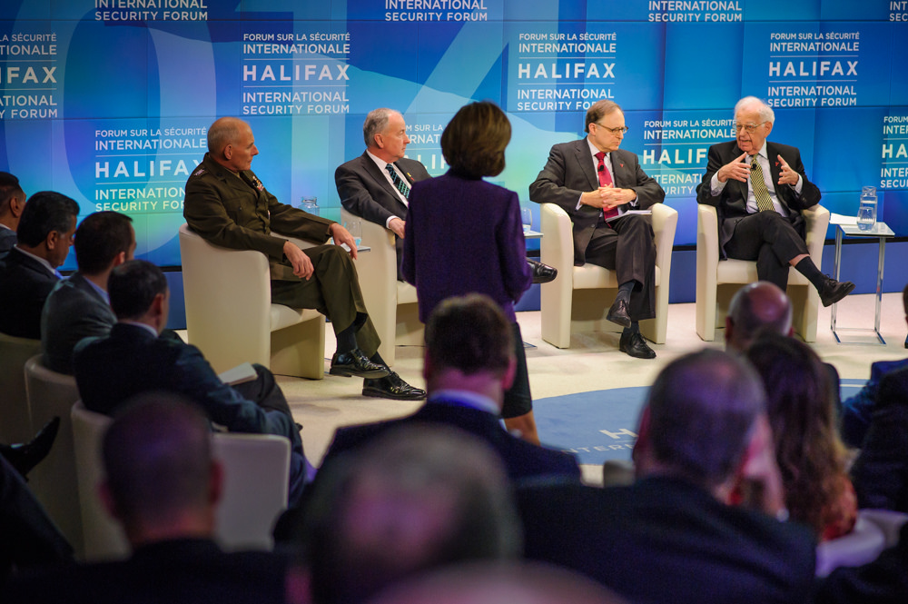 2014 Halifax International Security Forum